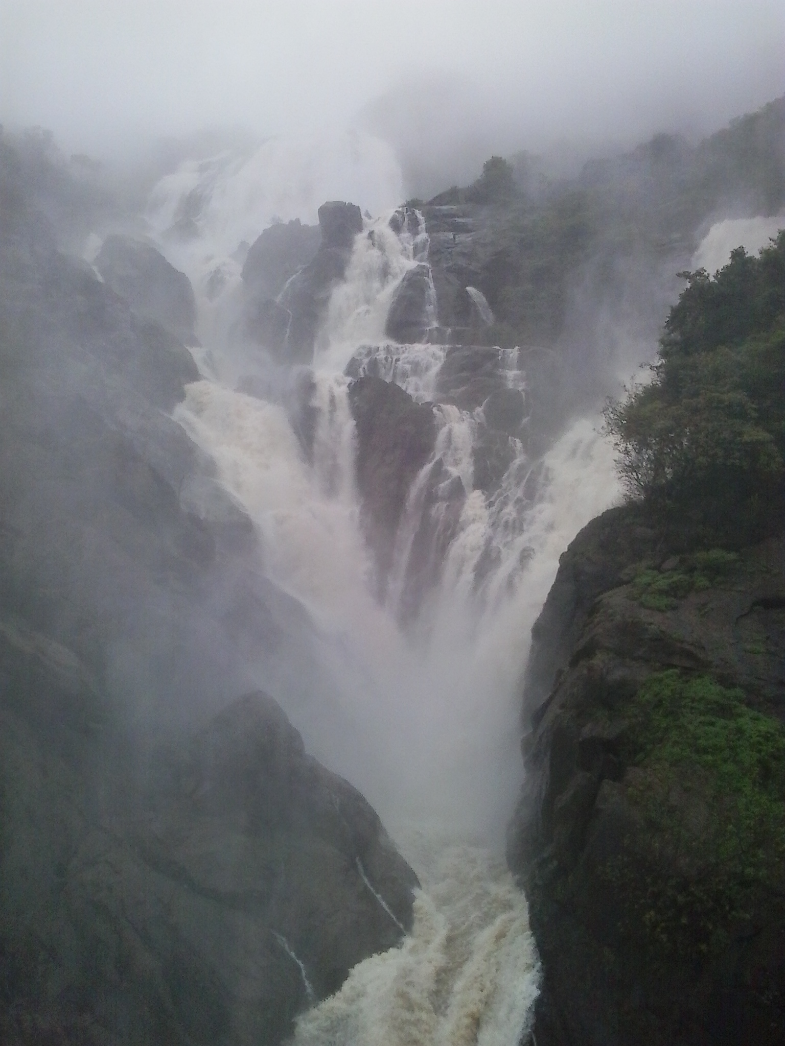 Doodhsagar Waterfalls in the month of August at its beautiful form ಕನ್ನಡ: ಆಗಸ್ಟ್ ತಿಂಗಳಿನಲ್ಲಿ ದೂದಸಾಗರ್ ಜಲಾಪತ